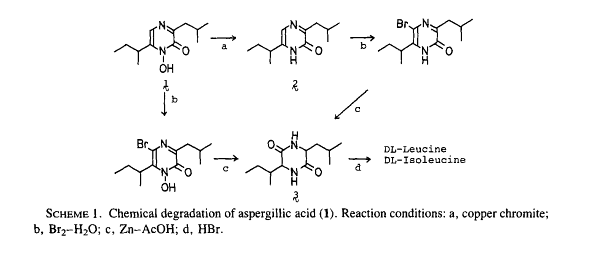 Aspergillic acid reactions